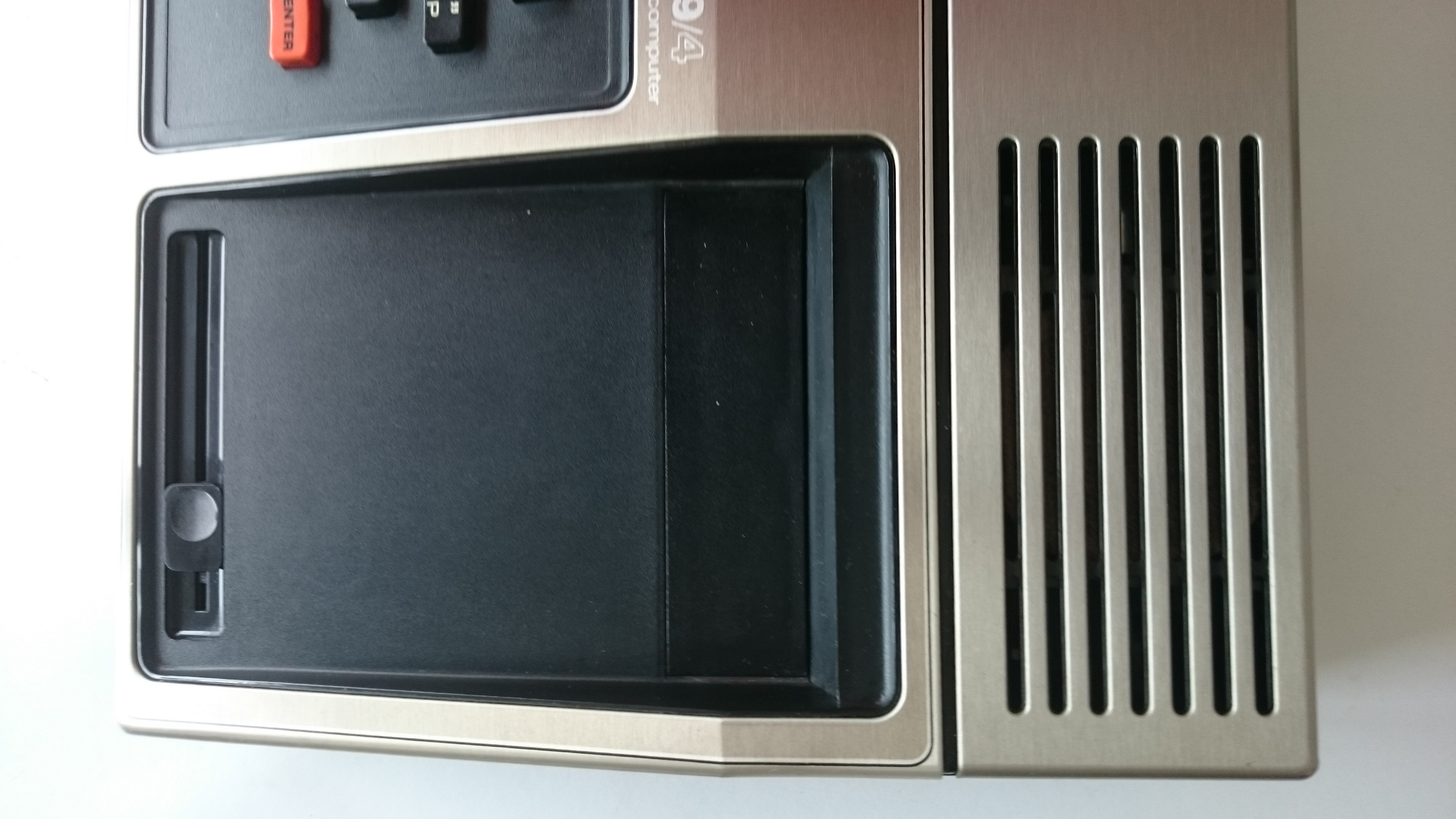 Photo of a TI-99/4 home computer's right-hand side with speaker and volume control. This is the version of the computer intended for the European market.